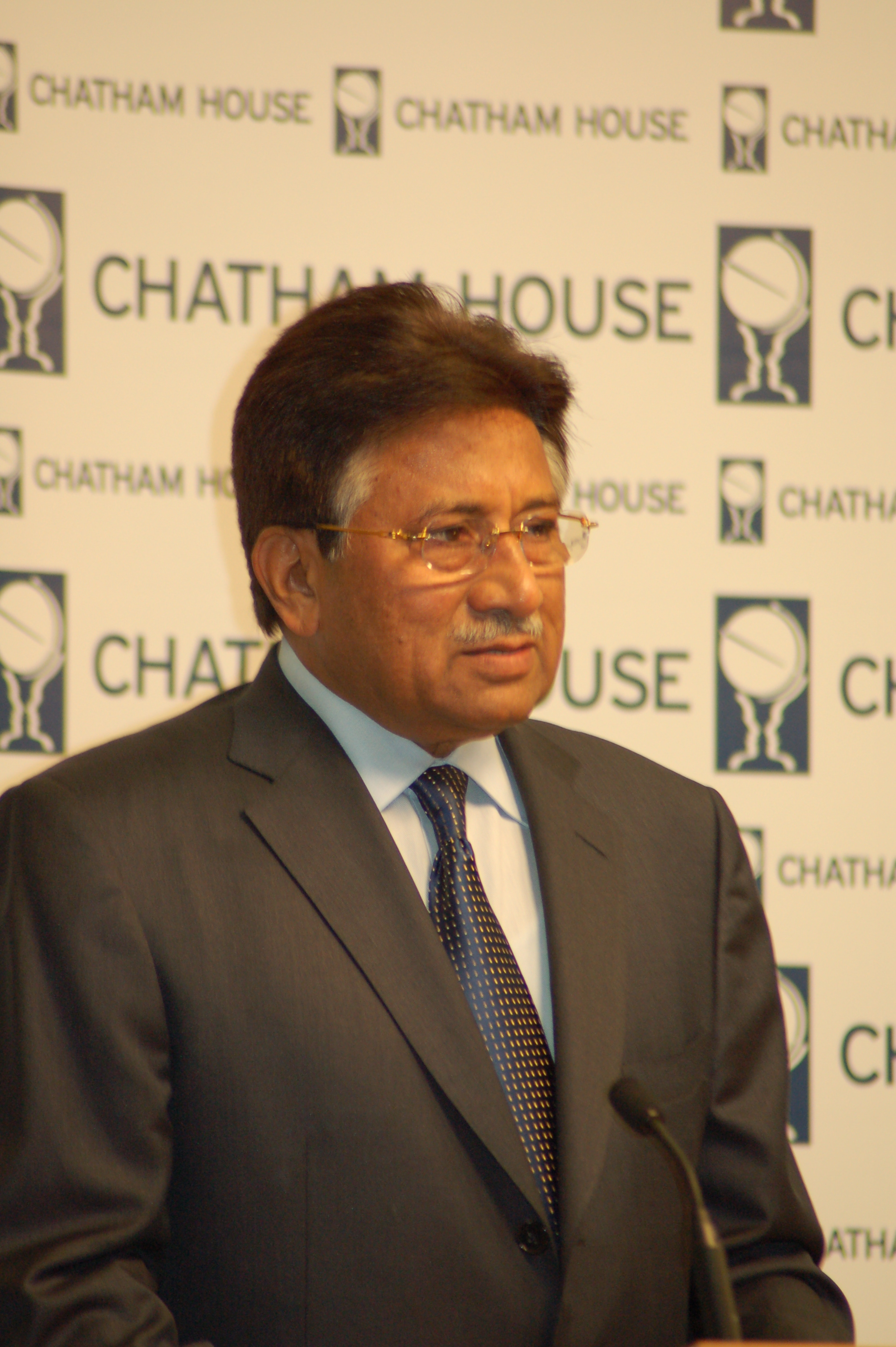 General (Retired) Pervez Musharraf, President of Pakistan (2001-2008)